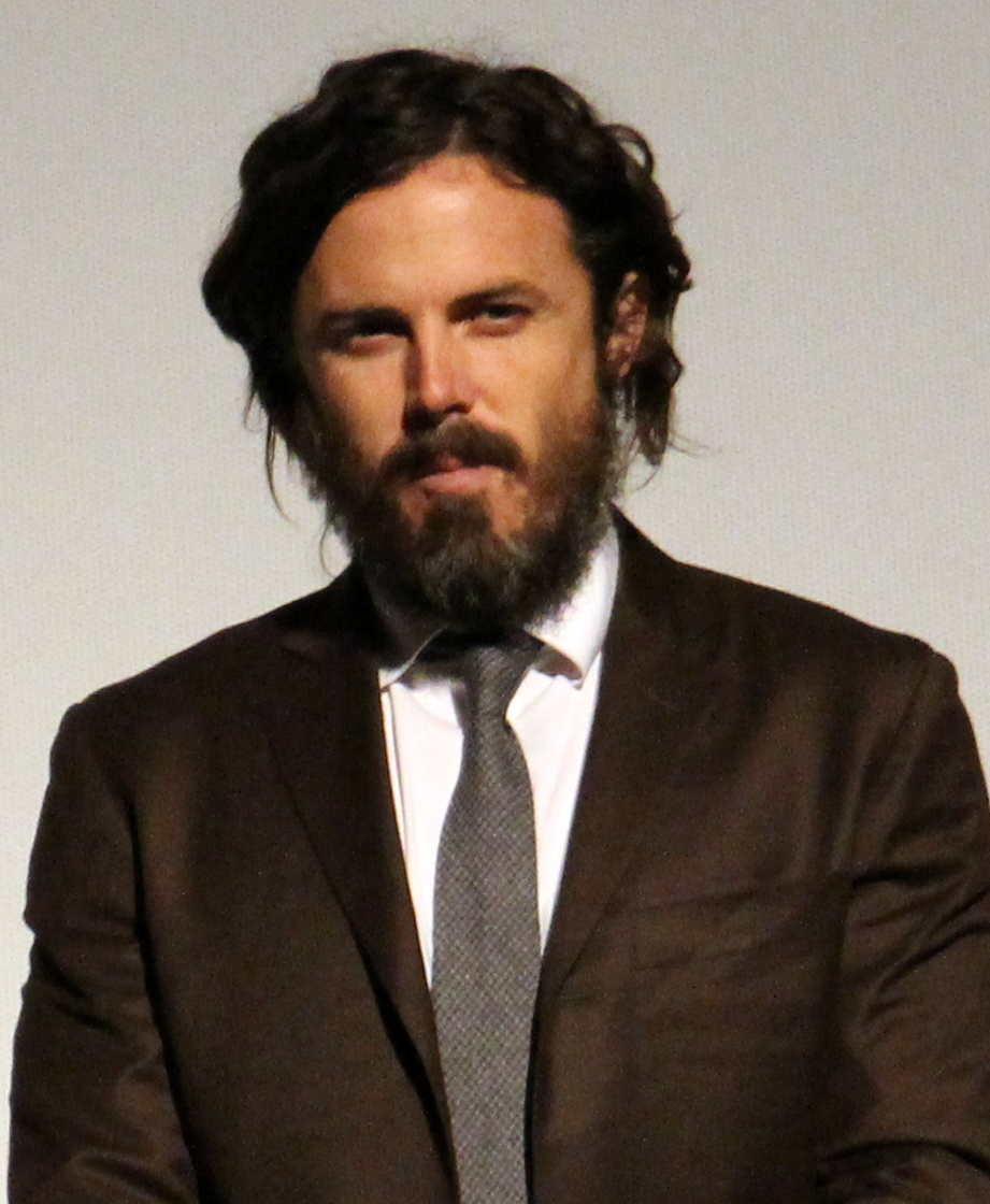 A producer, Michelle Williams and Casey Affleck at the Manchester by the Sea premiere